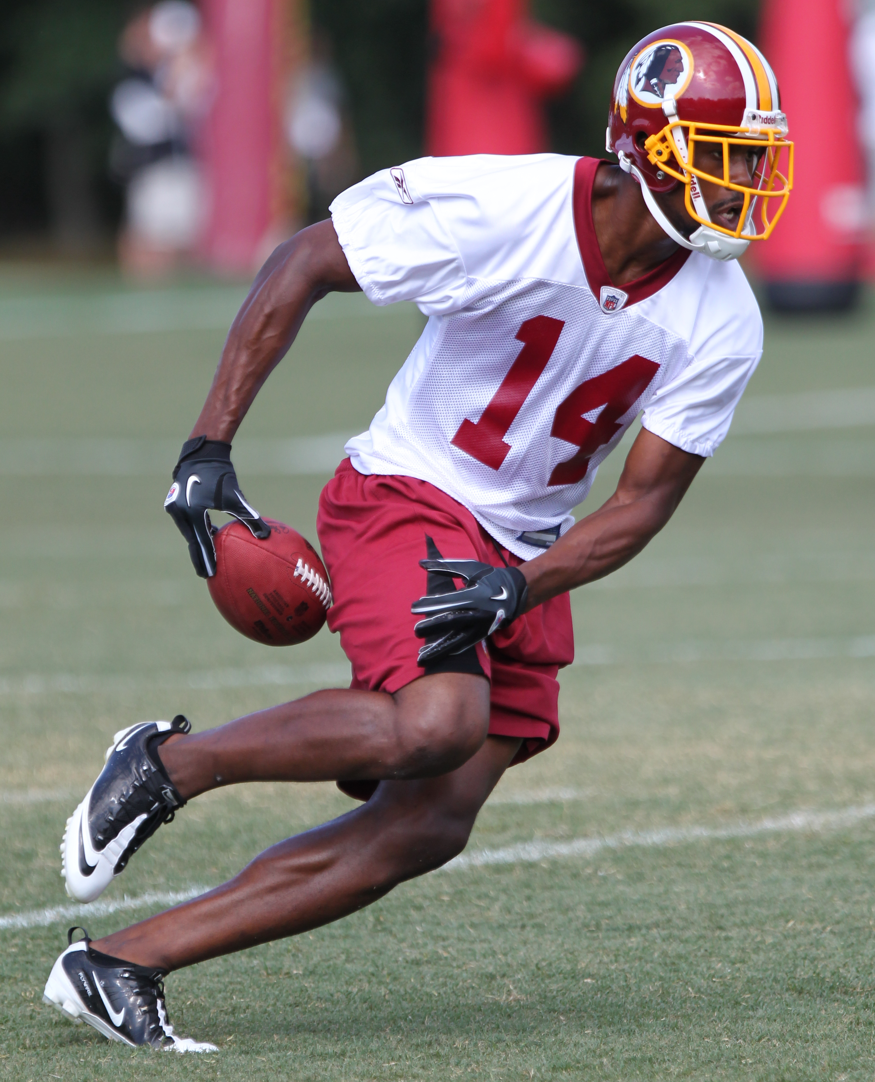 Malcolm Kelly at Washington Redskins Training Camp August 4, 2011